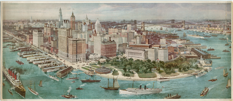 Birdseye view of Lower Manhattan.